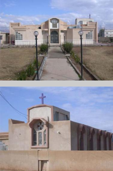 The Iraqi city of Sumail, in Dohuk.